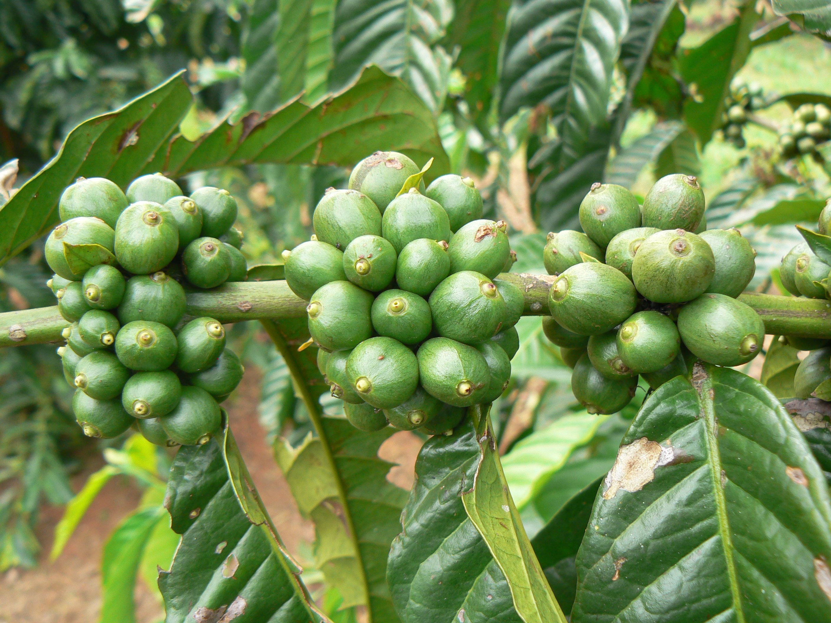 Coffee plant with green berries in Uganda